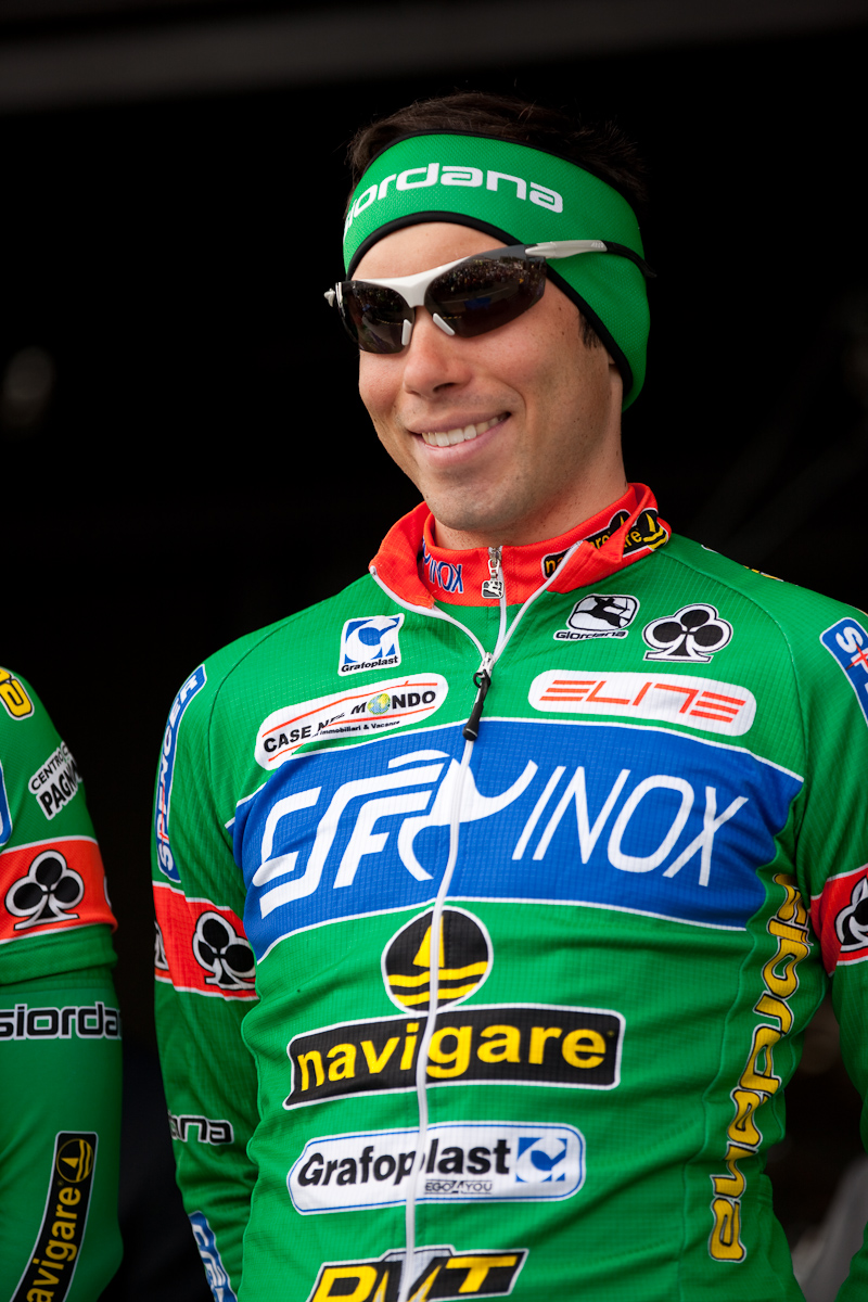 Marcello Pavarin, Eschborn-Frankfurt City Loop 2009